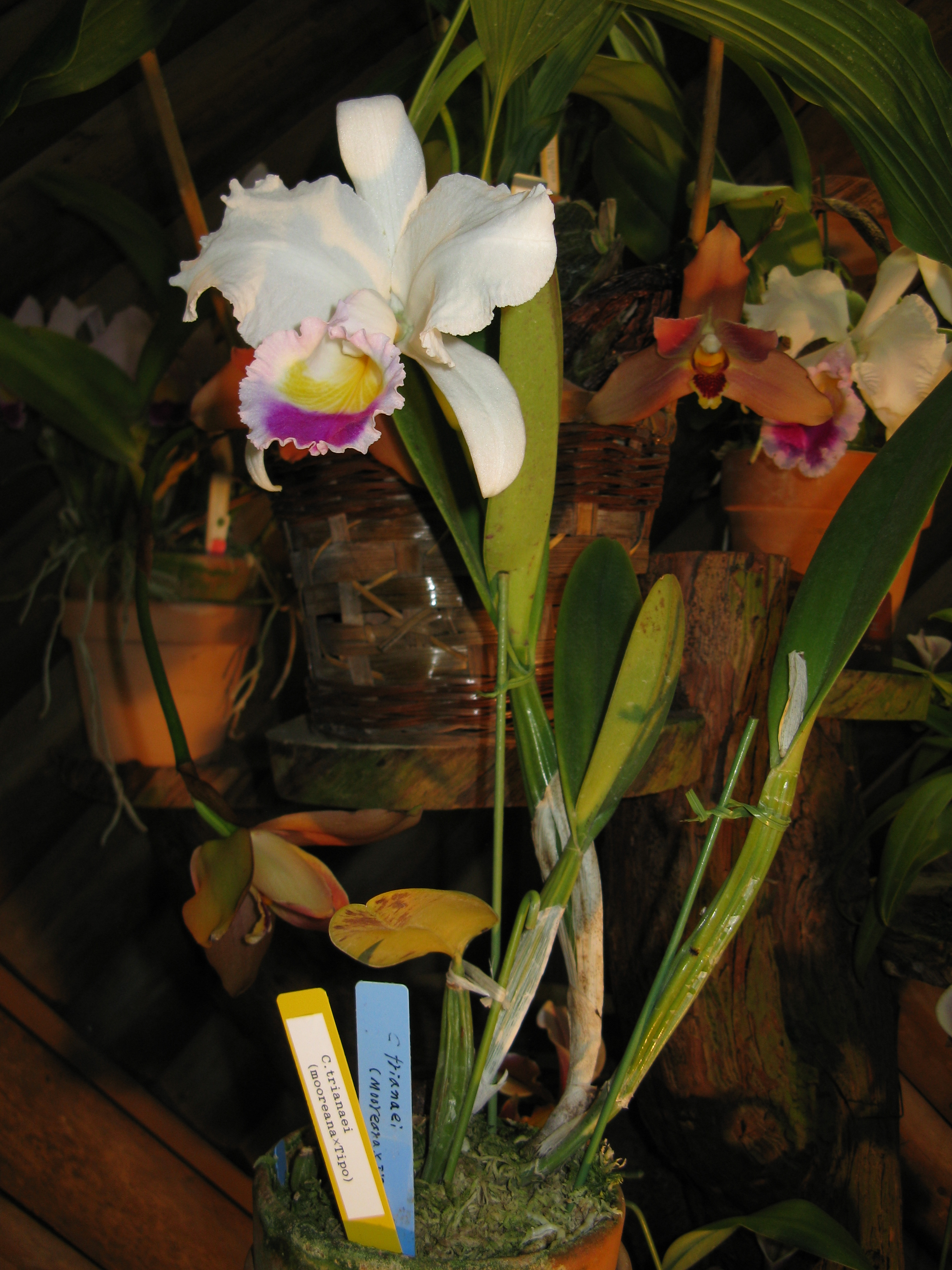 Cattleya trianae Place:Osaka Prefectural Flower Garden,Osaka,Japan